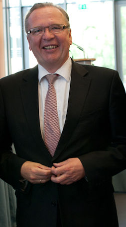 EM Germany President Rainer Wend surrounded by State Minister Michael Link and Honorary President Dieter Spöri.